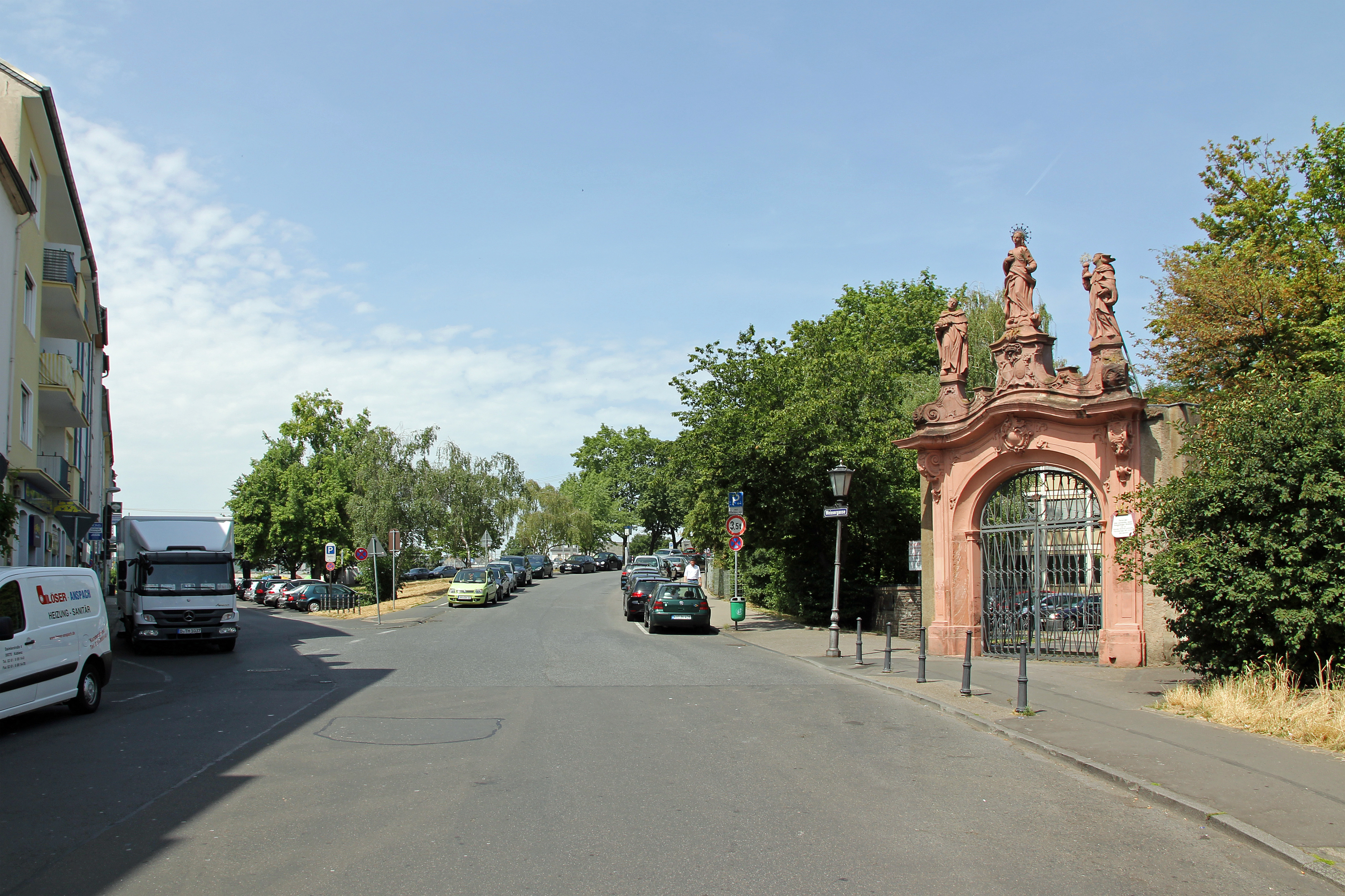 Weißer Gasse in Koblenz